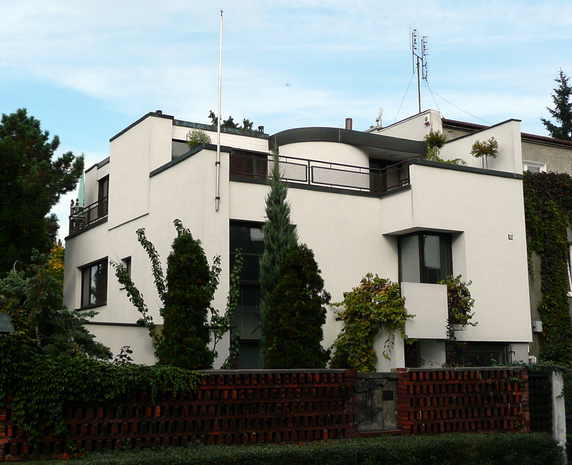 The first realization of avant-garde architecture in Poland. Built in 1927-1928 by the Stanisław Brukalski and Barbara Brukalski in Warsaw.